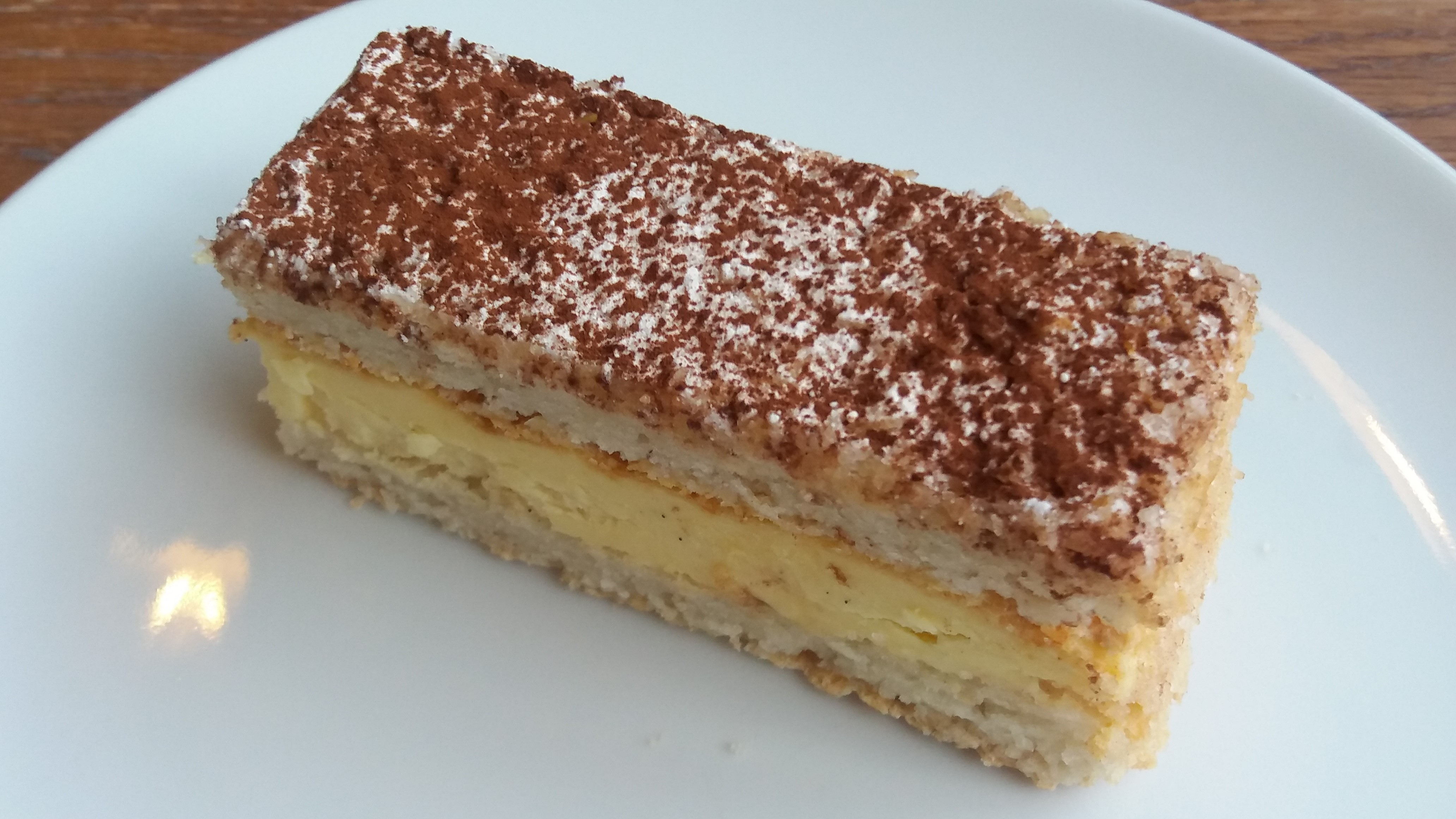 A famous Belgian cake called Miserable.